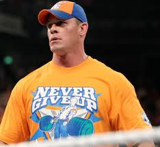 this image was taken in 2010